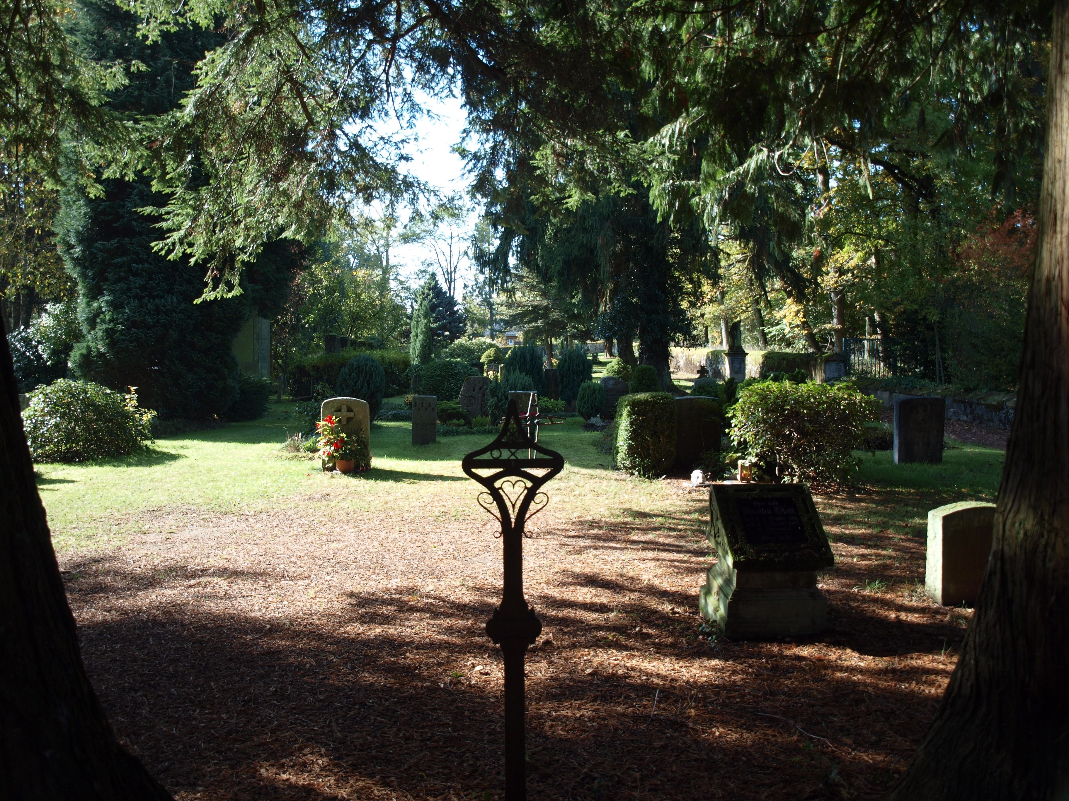 Heiligenboesch Cemetery